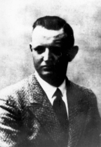 SS-Standartenführer Ludwig Hahn. During the German occupation of Poland he served as Kommandeur der Sicherheitspolizei und des SD (KdS) in Cracow (1940) and Warsaw (1941-1944). Photo from Hahn’s personal SS files, taken during the interwar period.